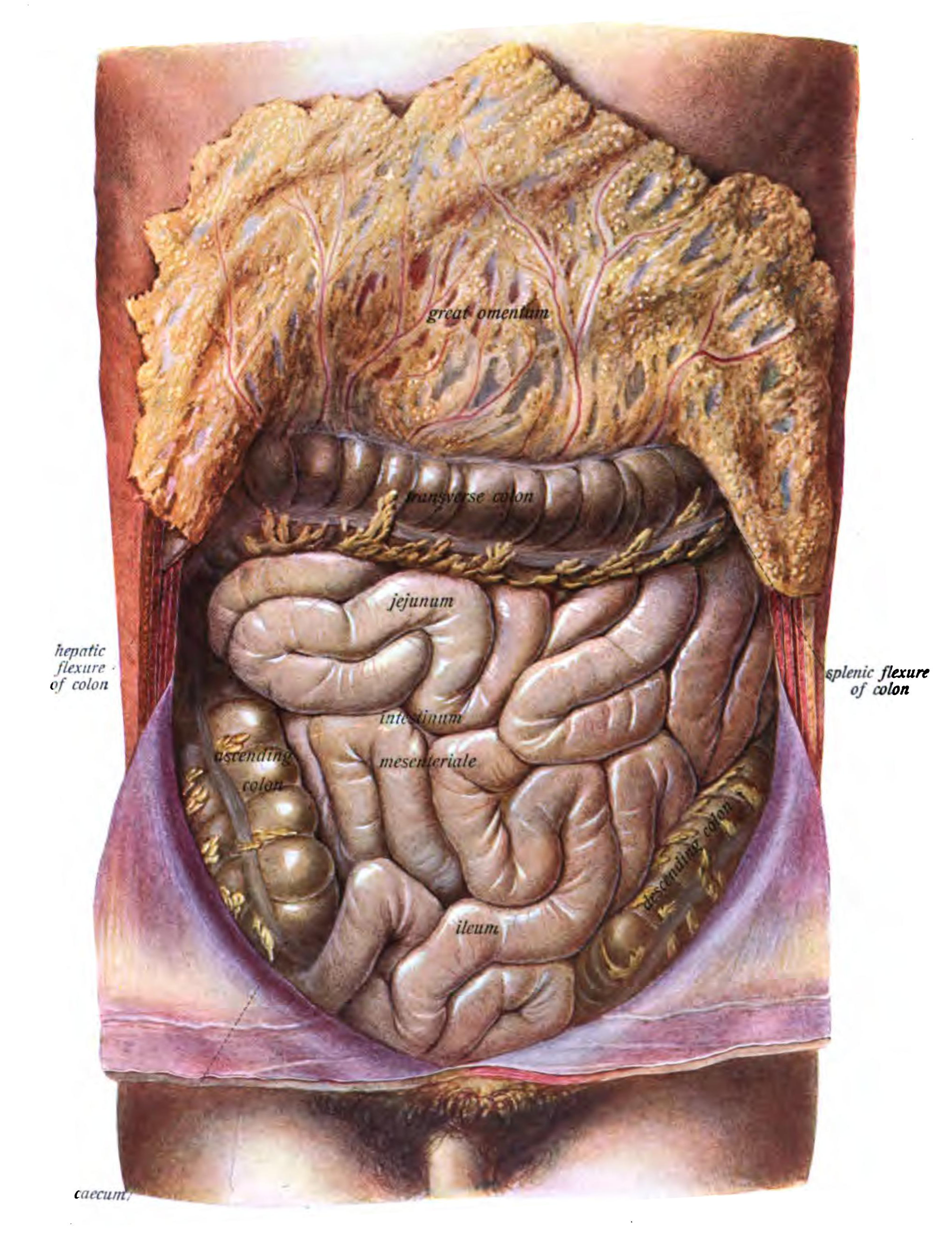 An anatomical illustration from the 1906 edition of Sobotta's Atlas and Text-book of Human Anatomy with English Terminology